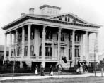 A Picture of the Bellamy Mansion from Market Street — In 1873 (North Carolina).